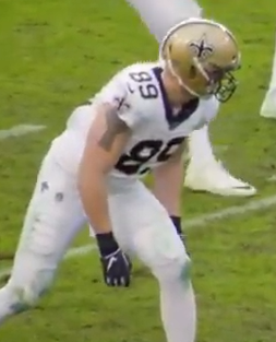 Josh Hill 2019. Image from video Titans Mic'd Up vs. Saints (Week 16) | Sounds of the Game, ~ 01:38.